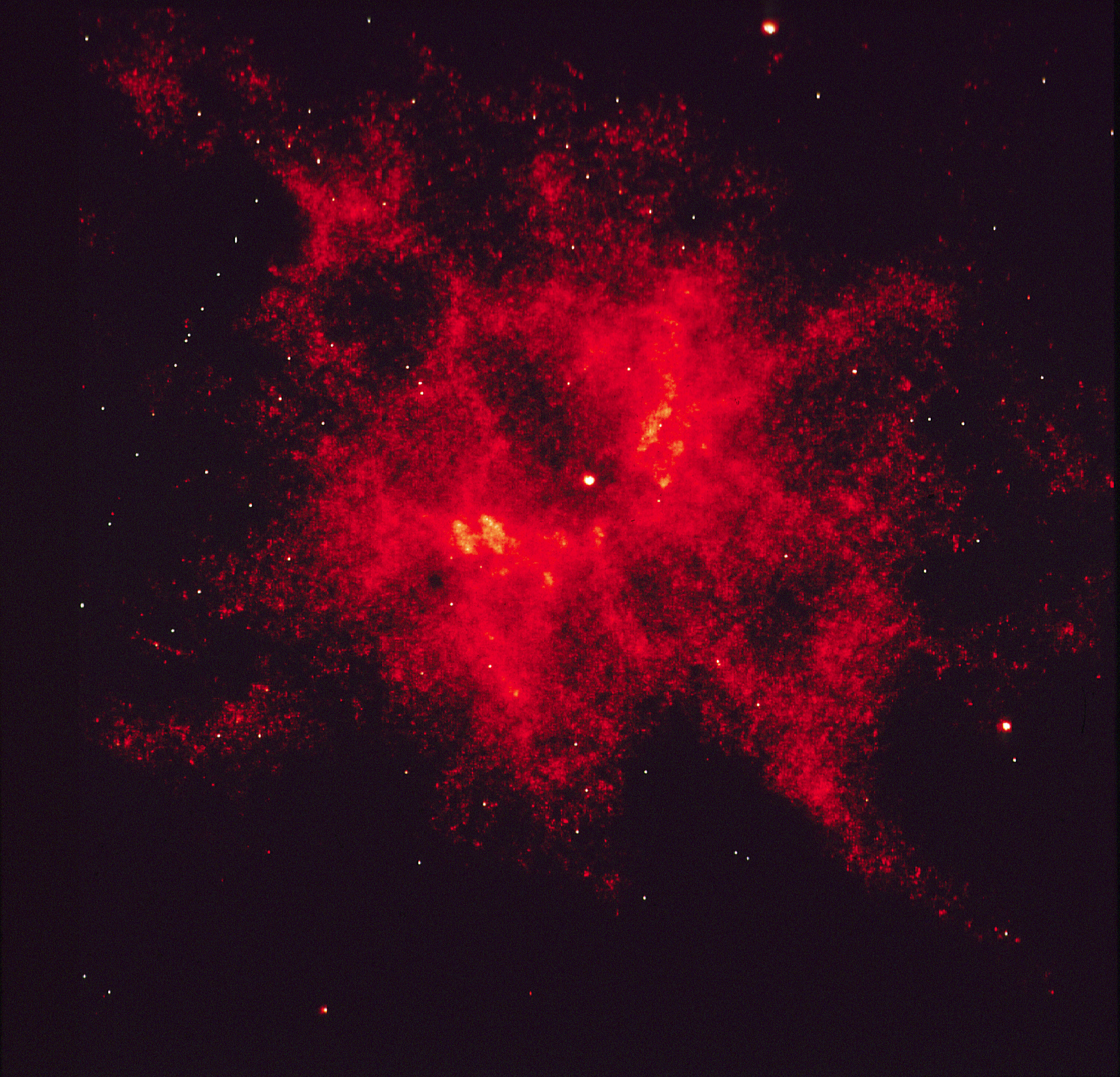 This photograph from the NASA/ESA Hubble Space Telescope presents the first clear view of one of the hottest known stars, the central star of nebula NGC 2440 in our Milky Way galaxy. The superhot star, called the NGC 2440 nucleus is the bright white dot in the center of this photograph. In previous photographs made with telescopes on the ground, blurring due to the Earth's atmosphere acted to smear together the light from the star with the glow of the surrounding nebula. By clearly separating the starlight from the nebular glow, astronomers have been able to make the most accurate estimate yet for the star temperature: a torrid 200000 degrees Celsius (or 360000 degree Fahrenheit) or more.